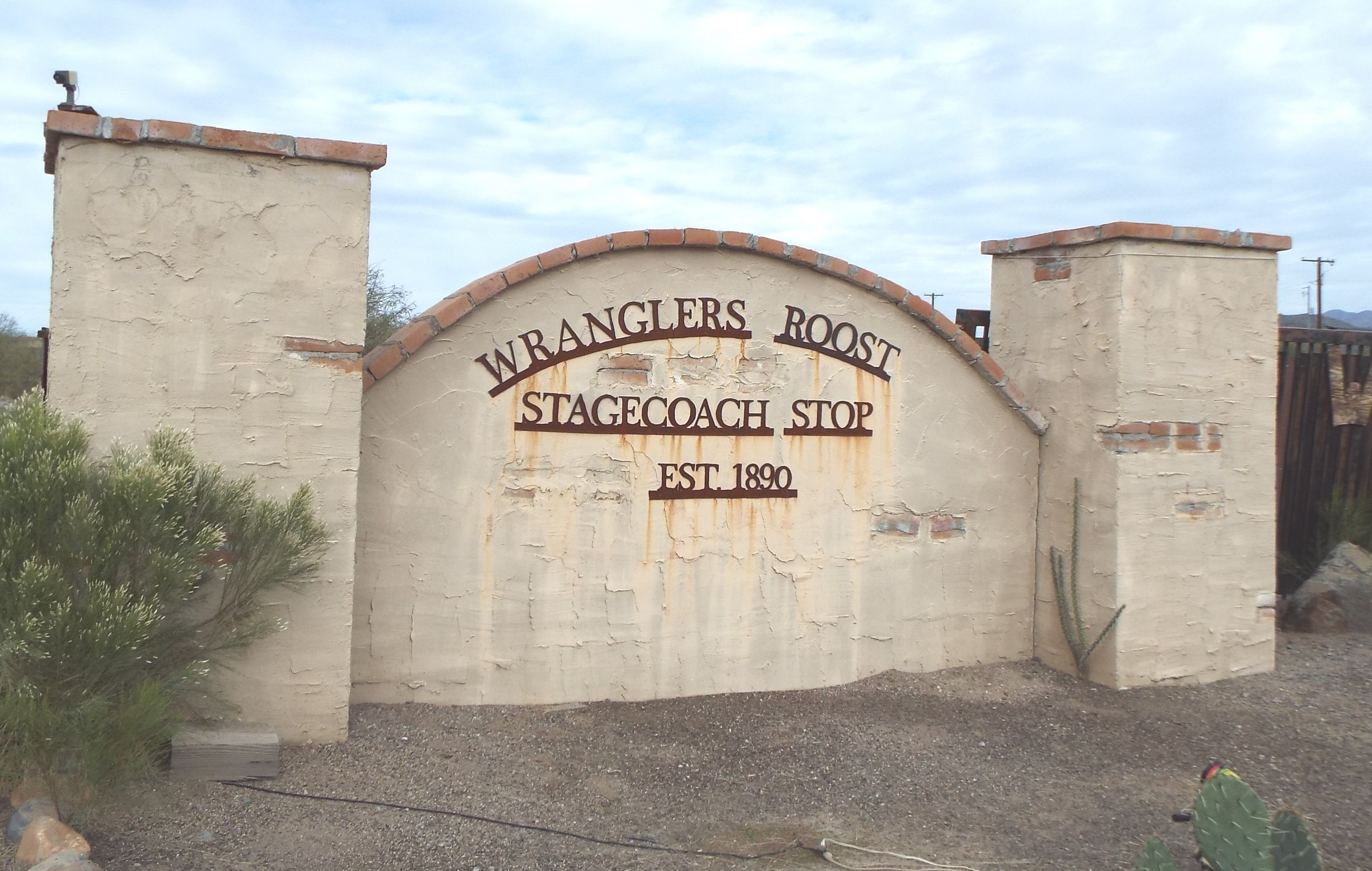 The front gate the historic Wranglers Roost located in 2500 West New River Road in New River, Arizona. This was where the New River stage coach stop was located in the late 1800’s. The location was rebuilt in 1930 as a resort.